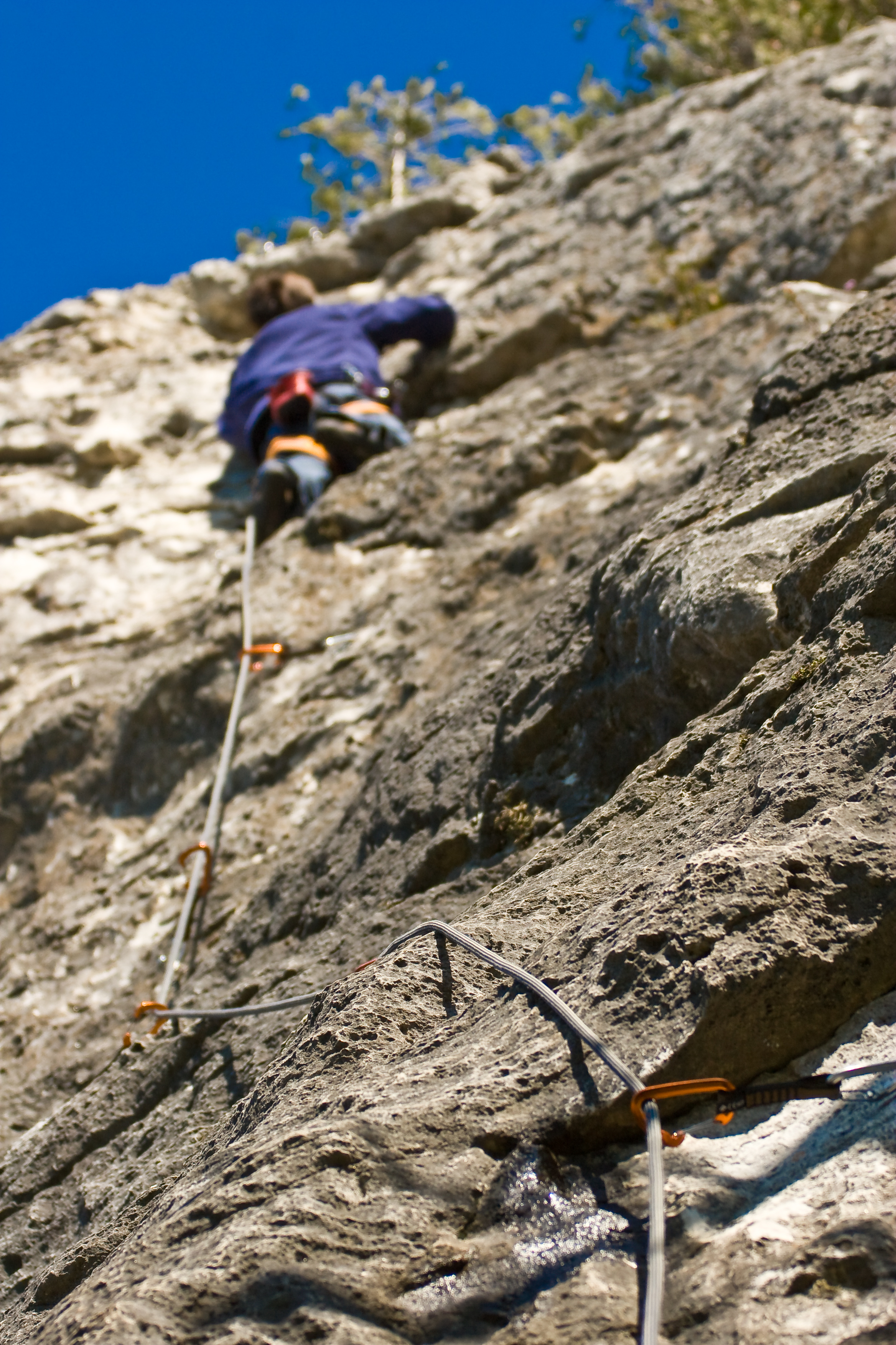 Rock climbing in Lion's Head, Ontario @ May 24-25, 2008